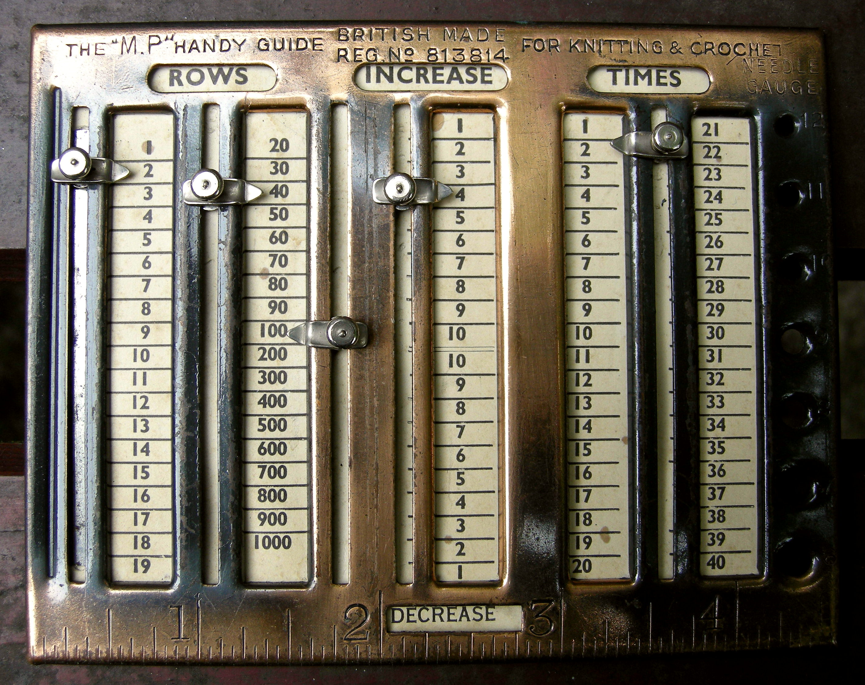 The MP Handy Guide complex knitting row counter, patent registered 1936. It has a needle gauge on the right.